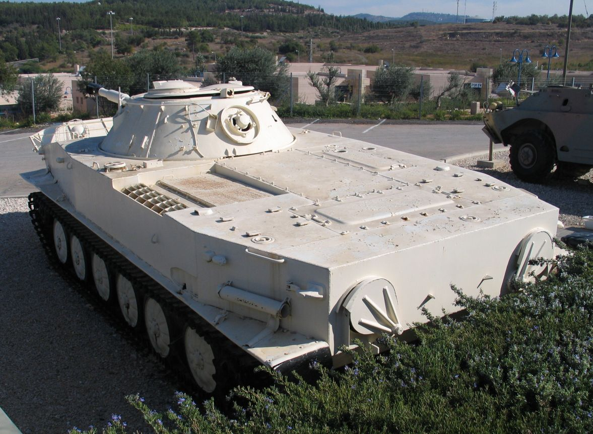 Description: Soviet PT-76 amphibious tank in Yad la-Shiryon Museum, Israel. Source: Photo by me, User:Bukvoed.